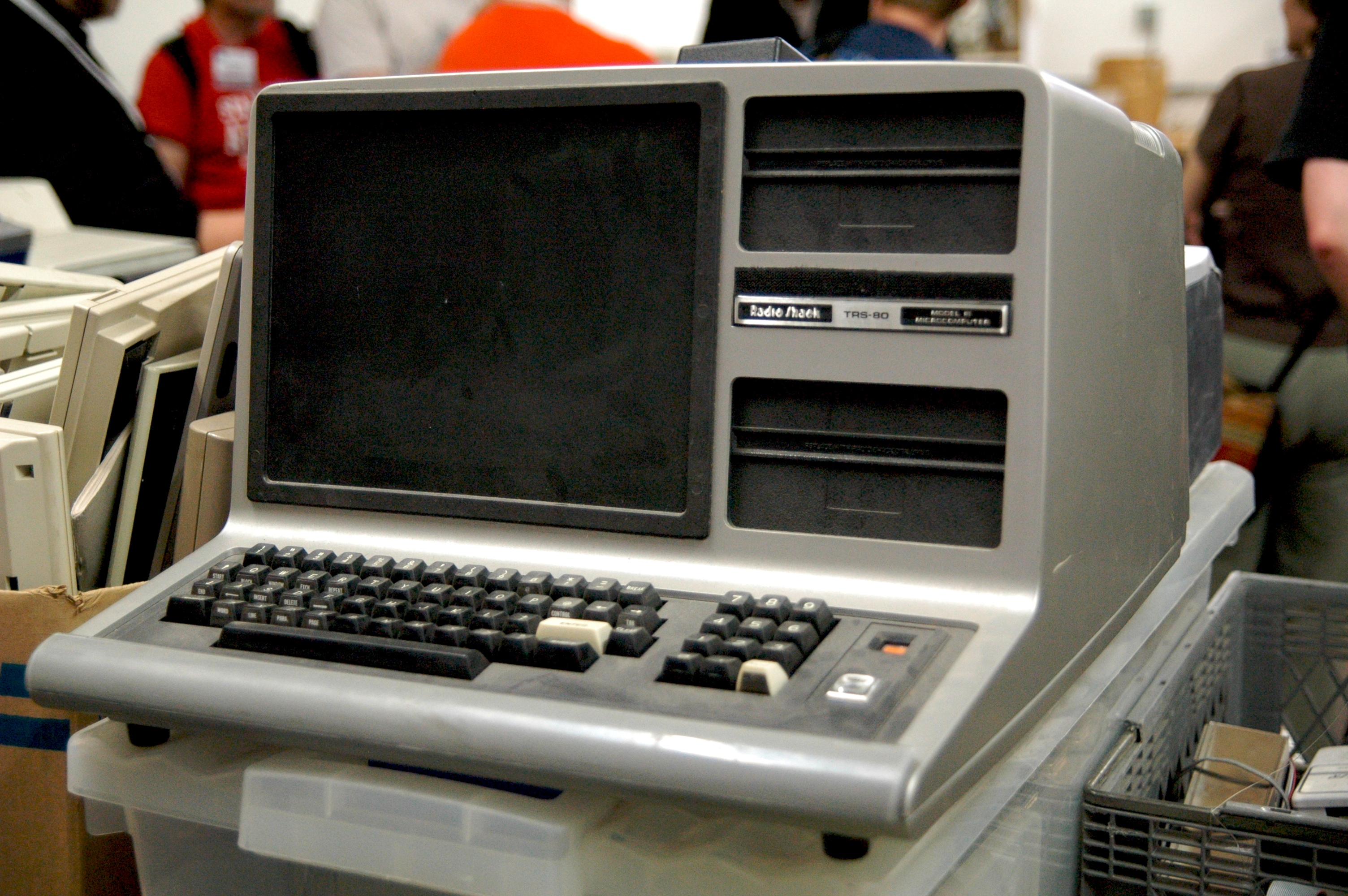 A TRS-80 Model III without disk drives.